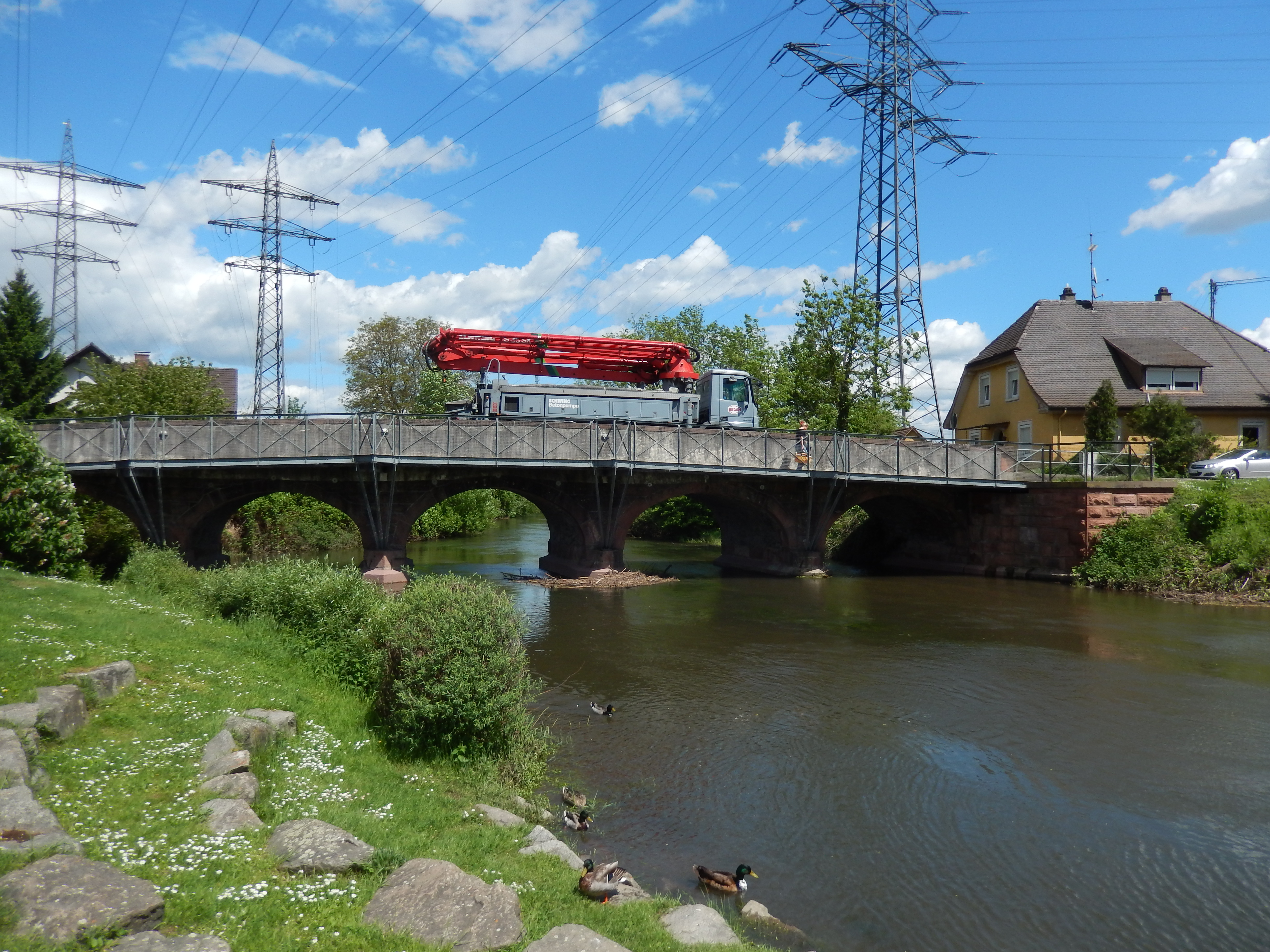 Old Bridge in Eichstetten, Germany.